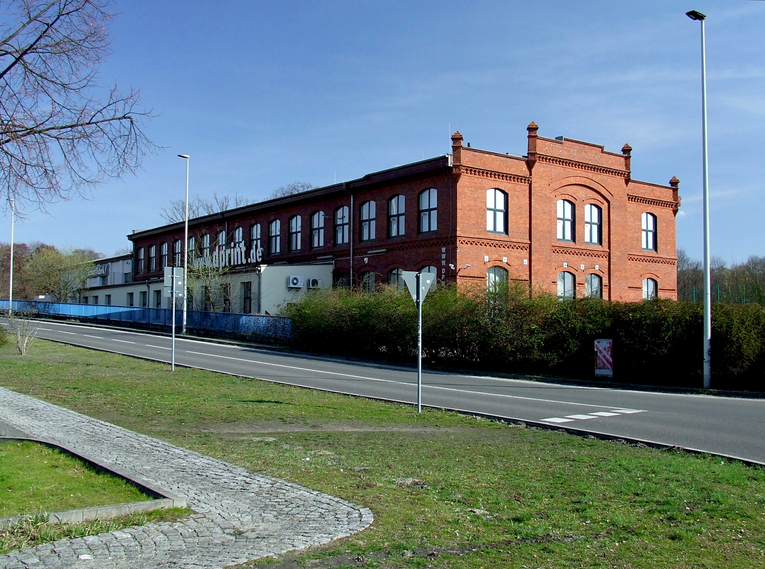 Parzellenstraße 21 in Cottbus-Spremberger Vorstadt, which was originally constructed as an auxiliary spinning works of Tuchfabrik Carl Loll at Ostrower Straße. After 1945, the property was refitted as a chemical plant and run by VEB Chemische Werke Cottbus, closing down in 1993. Today, it houses several businesses as well as the "Alte Chemiefabrik" event hall.